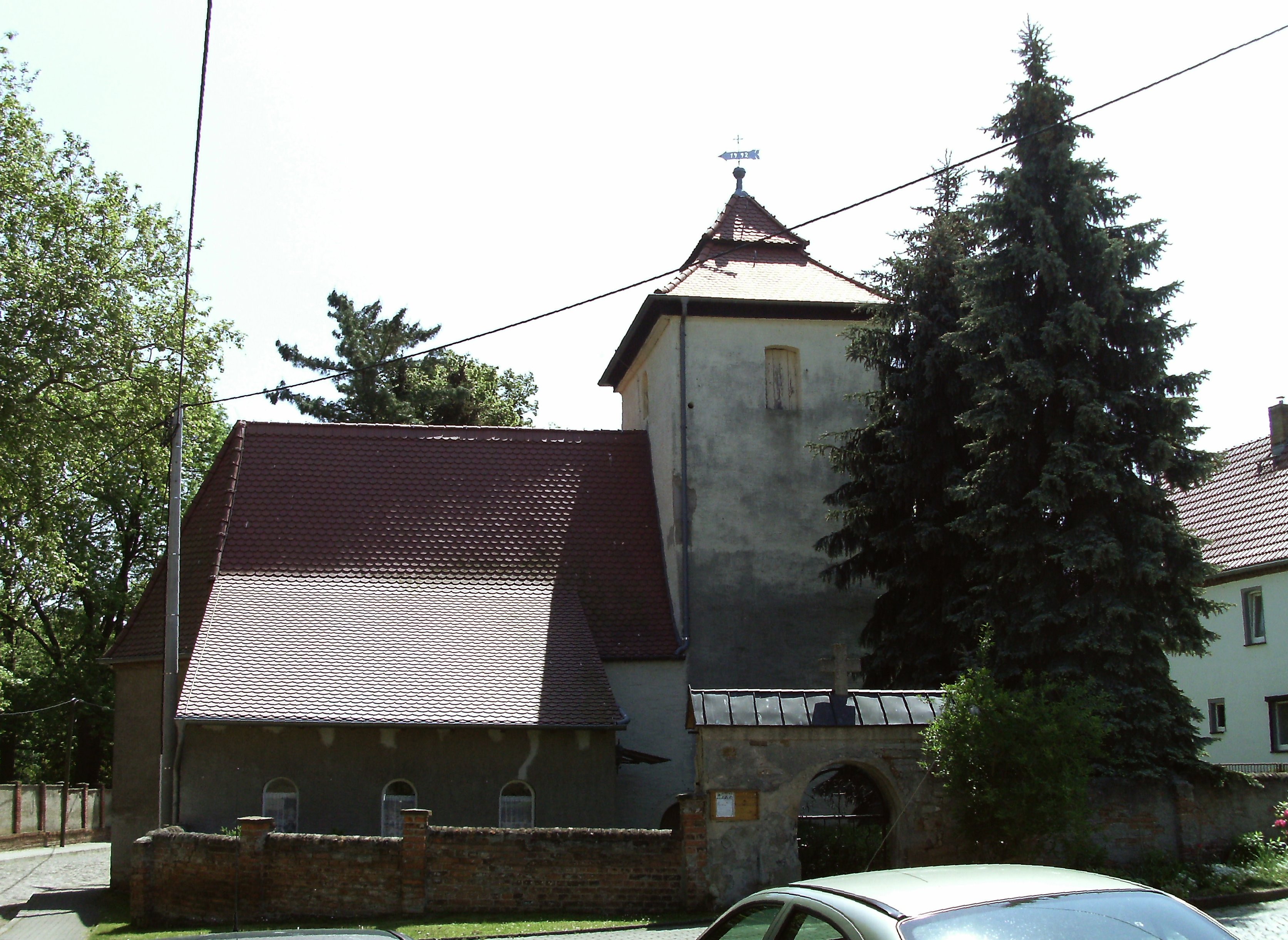 Saint Vincent and Gangolf Church in storkau (Weissenfels, district of Burgenlandkreis, Saxony-Anhalt)